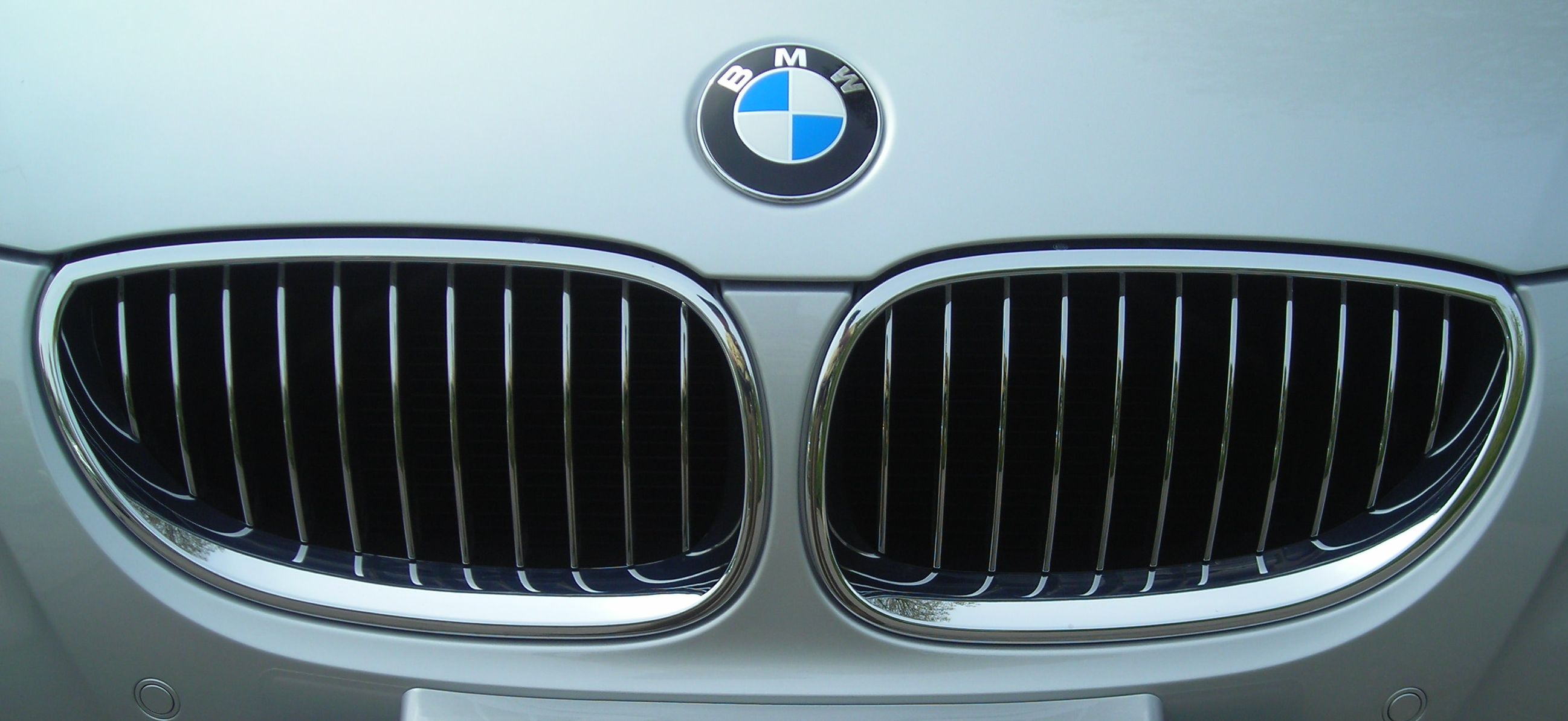 BMW E60 front grill.